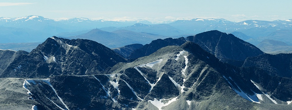 The Smiubelgen mountains seen from Rondeslottet. From the left, Storsmeden, Veslesmeden and Trolltinden. The mountain in the background with a communication tower is Jetta.